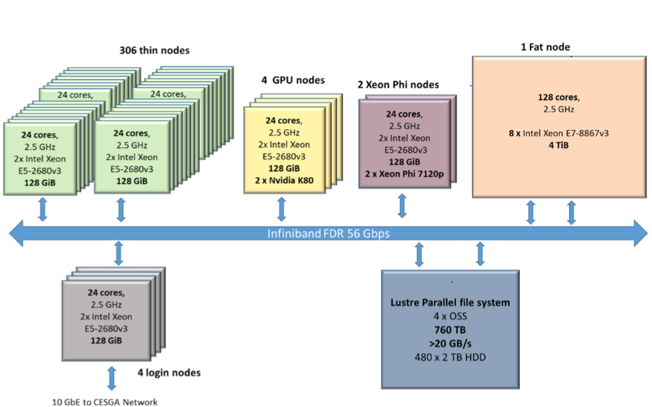 Architecture of the Finisterrae II supercomputer